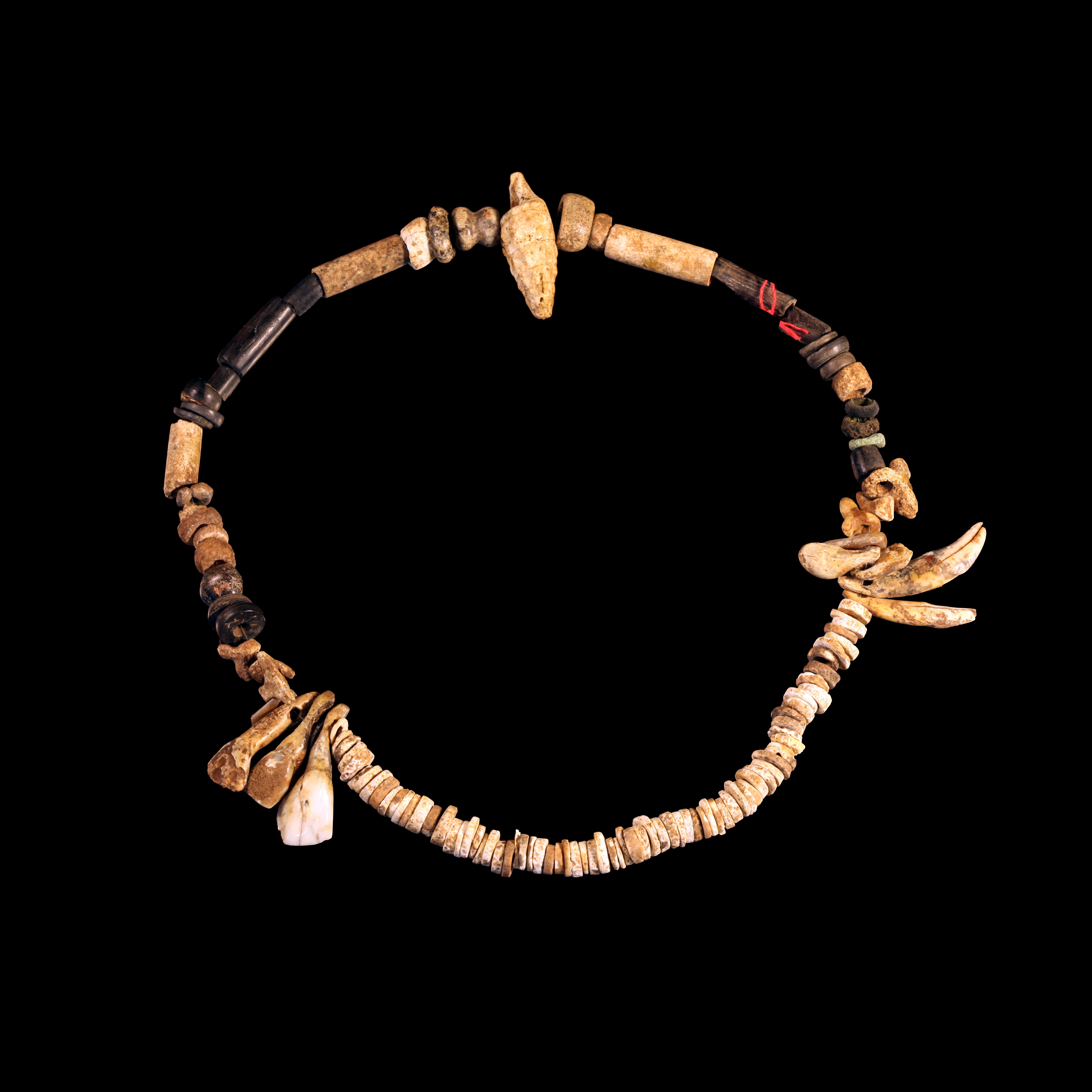 Necklace from the Bronze Age Description : Disk-like bivalve shell beads - perforated Cerithium shell - canid and cervid canines - bovine incisives - jade beads - calcite pearls - limestone pearls - reindeer horn pearls - copper pearls. Stage : Holocene Bronze age 1800-1500 BC Locality : Dolmens de Peyrolevado, Saint-Germain, Millau, Aveyron, France Former collection of Émile Cartailhac (1845 - 1921) Muséum of Toulouse MHNT.PRE.2009.0.239.1 Size : 170×170×15 mm